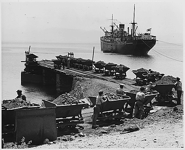 Greece. With Economic Cooperation Administration help, Greece is speeding up its exploitation of existing bauxite reserves, to provide the raw material for European aluminum production and supplies for the United States stockpile, ca. 1948 - ca. 1955 ARC Identifier 541703 / Local Identifier 286-ME-7(5) Item from Record Group 286: Records of the Agency for International Development, 1948 - 2003